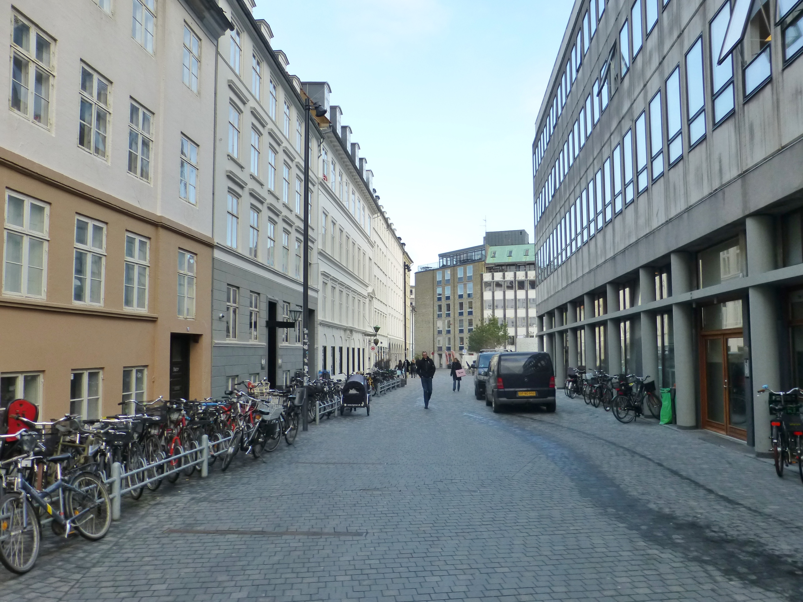 The street Hausergade in Indre By in Copenhagen.